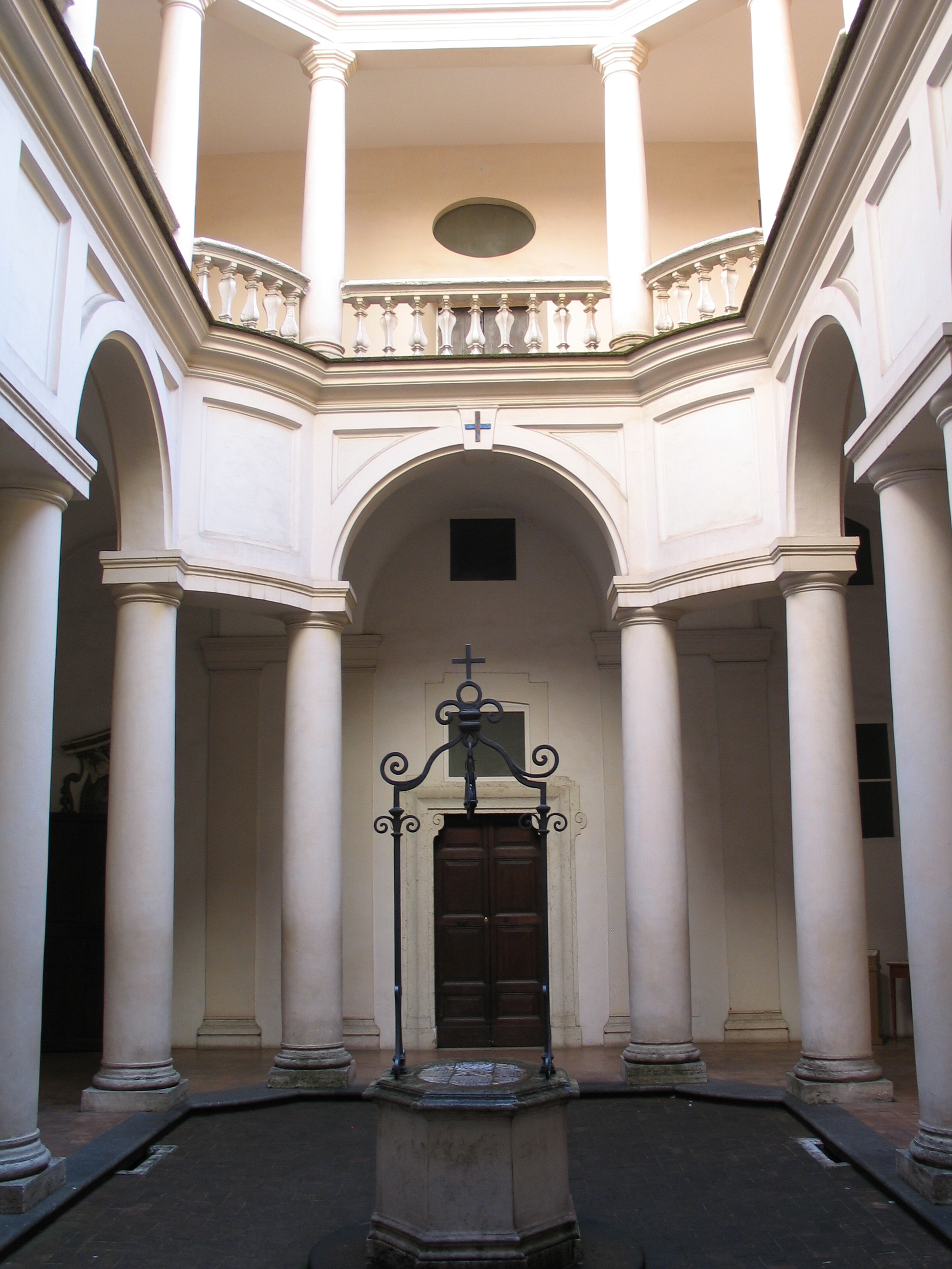 The cloister of San Carlino, designed en build by Francesco Borromini between 1635 and 1637.